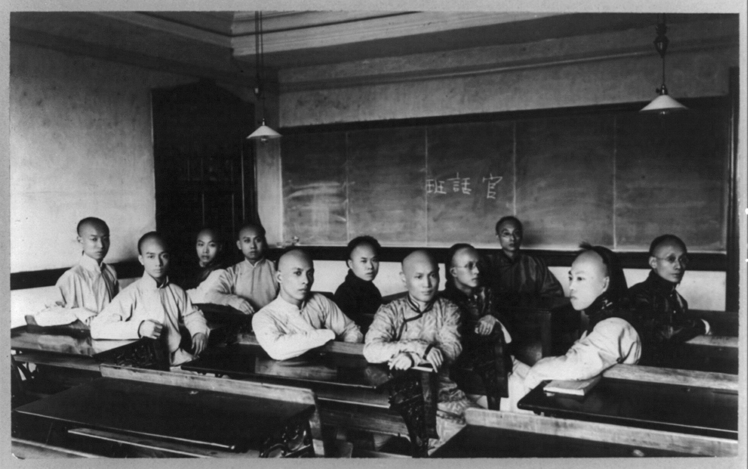 Title: Men of mandarin class in Y.M.C.A., China Abstract: Eleven men at desks in classroom.Write the words "Mandarin class（官话班）" on the blackboard.looking at the hairstyle before the Revolution of 1911.Because Chinese man cuts braid in 1912. Physical description: 1 photographic print. Notes: Title and other information transcribed from caption card and item.; Frank and Frances Carpenter Collection (Library of Congress).; LOT subdivision subject: China.